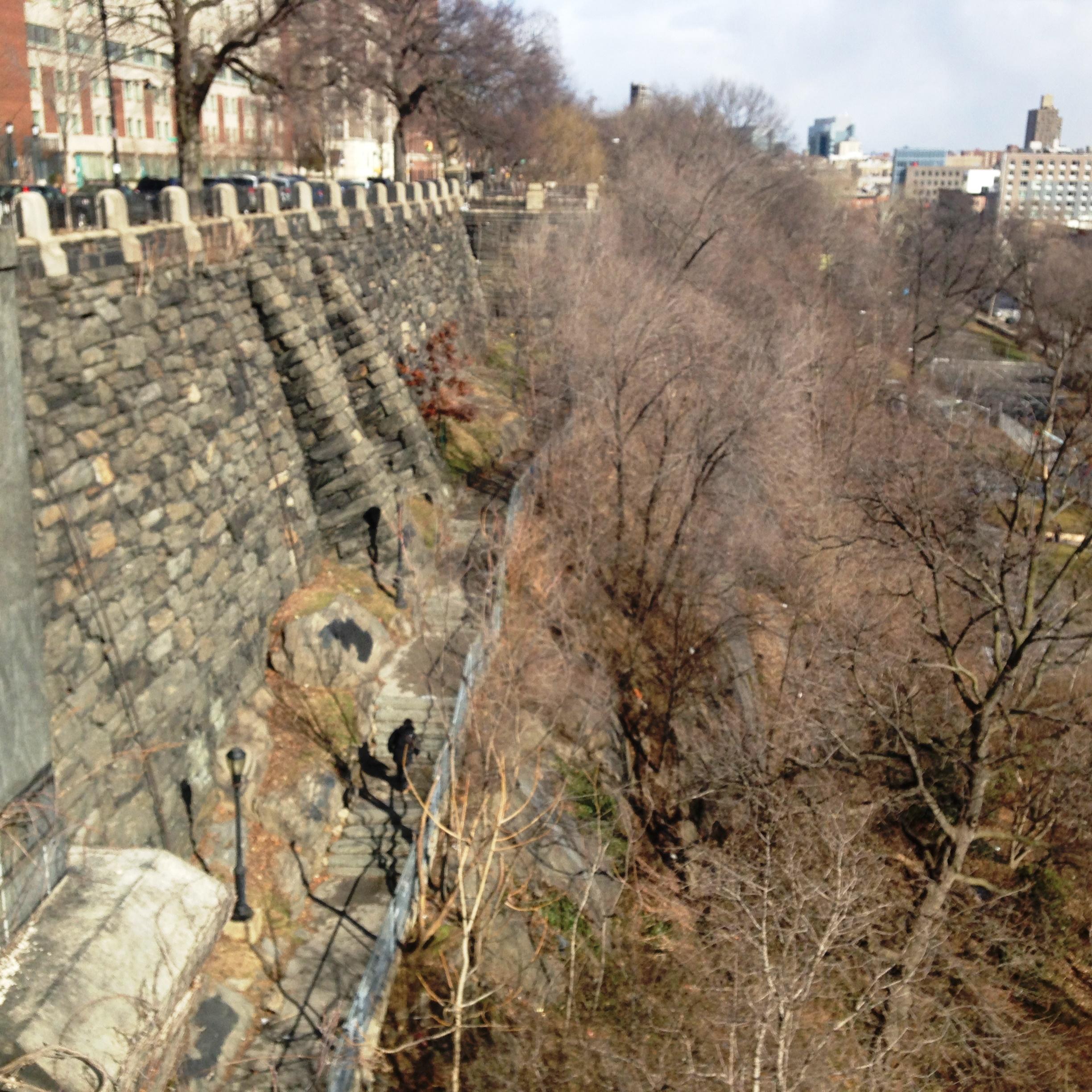 The retaining wall for Morningside Drive, in the Morningside Heights neighborhood of Manhattan, New York City, with Morningside Park below it. This view is looking north from the Carl Schurz Monument on West 116th Street.